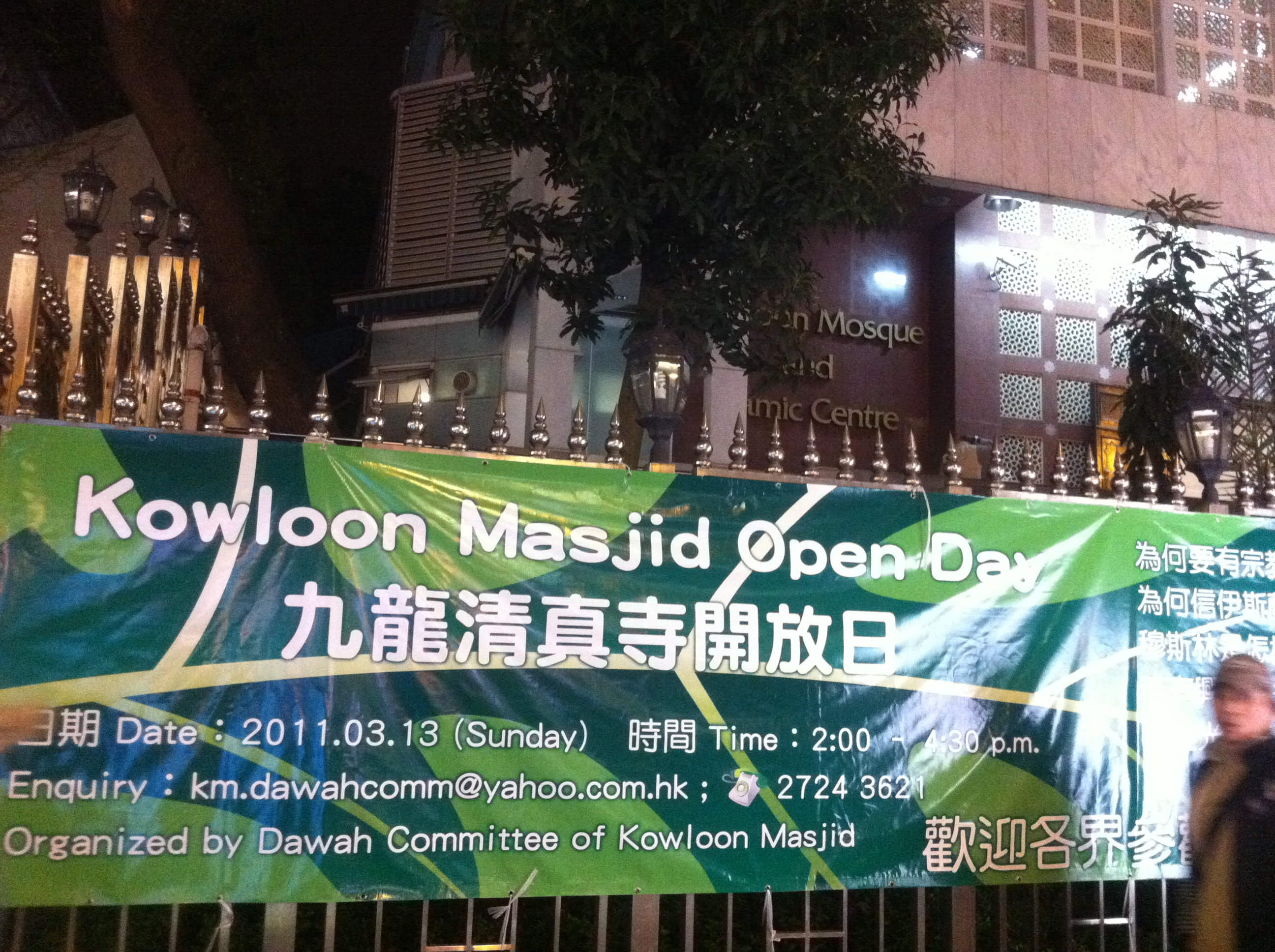 Open Day @ Kowloon Masjid and Islamic Centre on 13th March, 2011